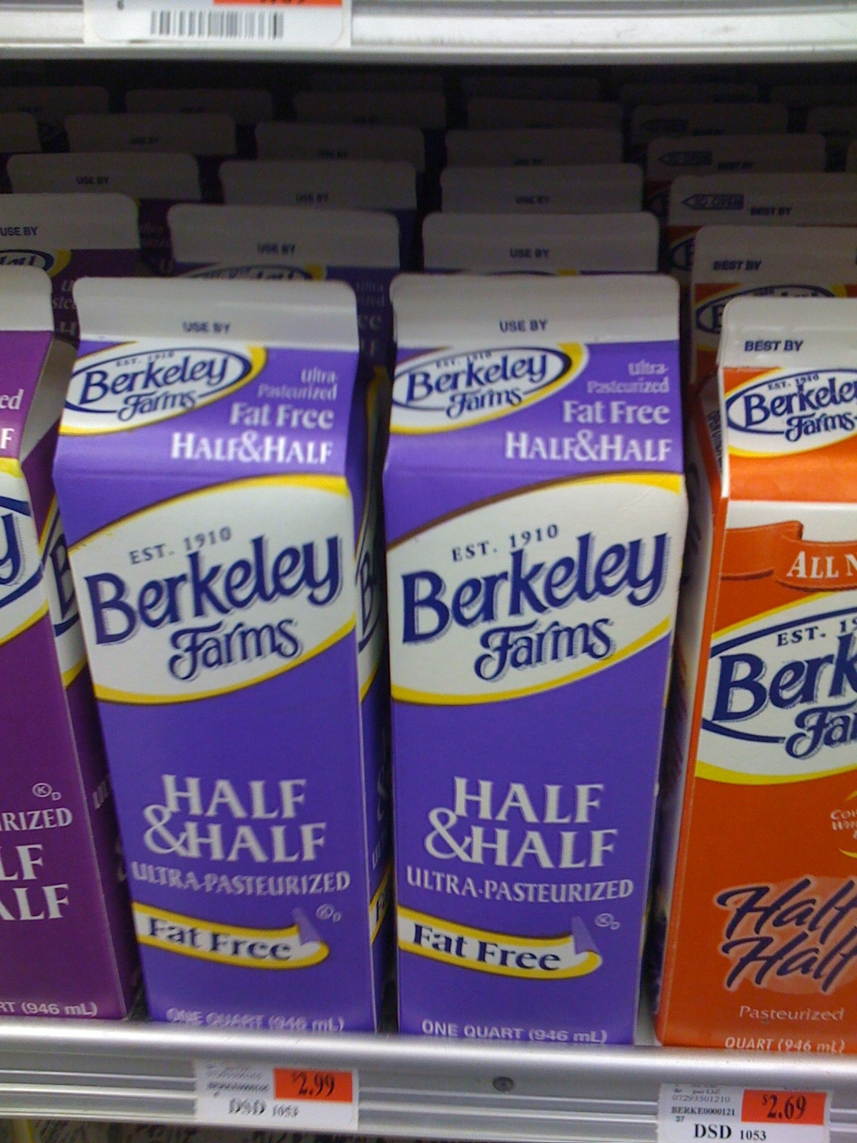 uploaded by ShoZu